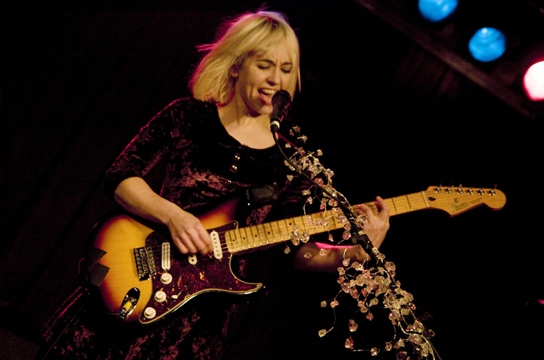 The Joy Formidable - Razz 3